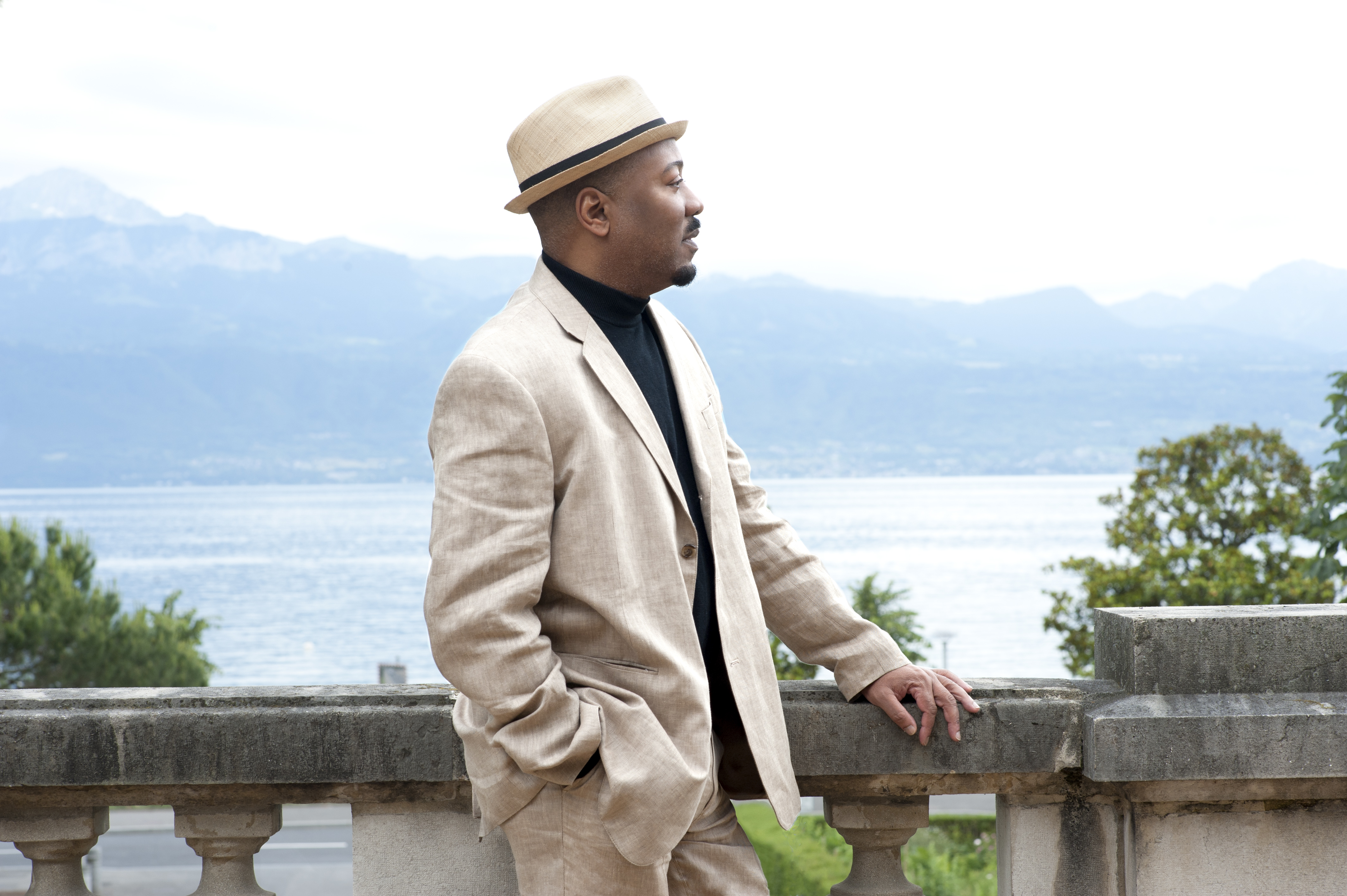 Photo © Franck Thibault